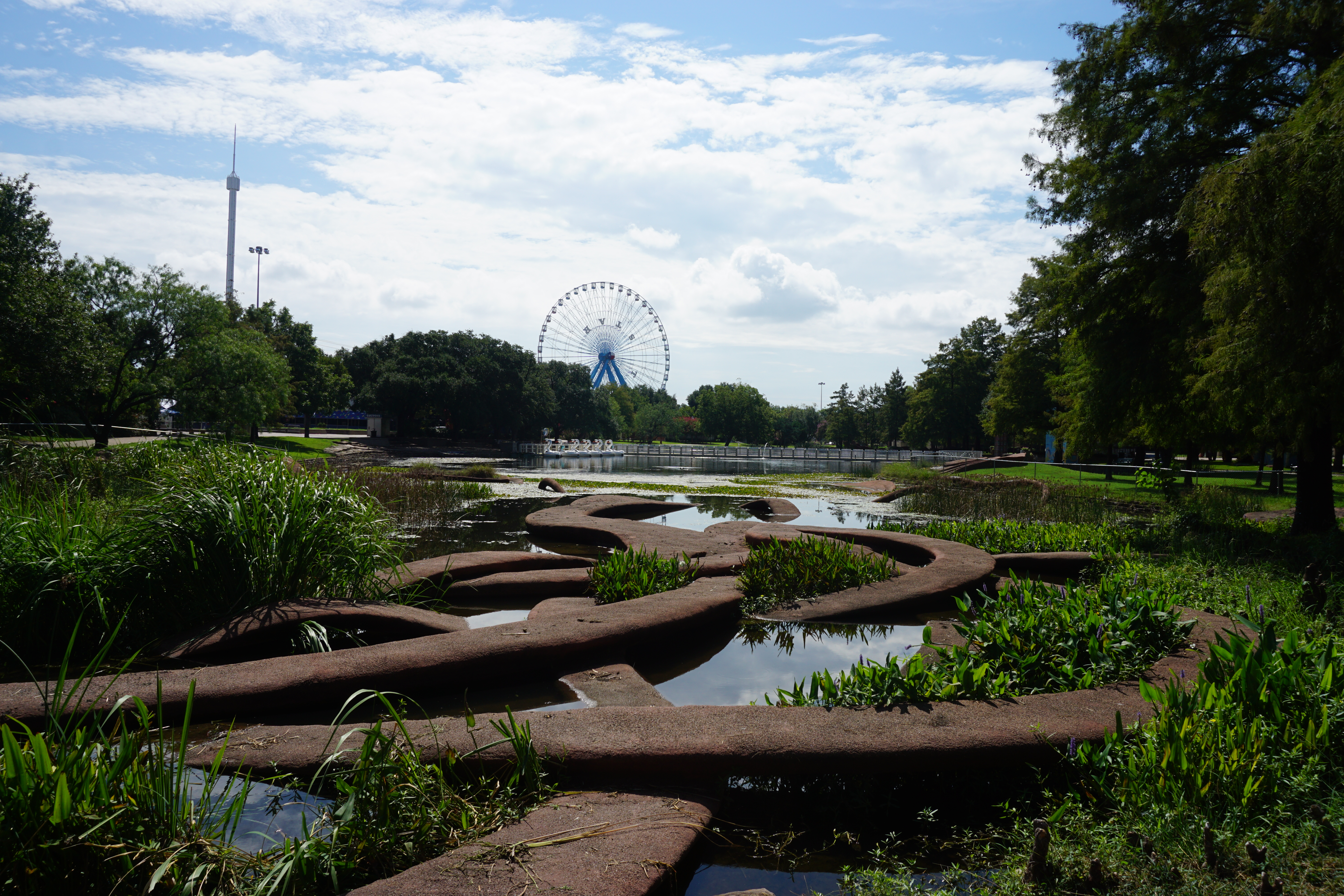 Leonhardt Lagoon at Fair Park in Dallas, Texas (United States).